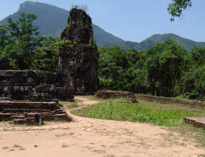 Damage at My Son (crater caused by bomb being dropped in Vietnam War)